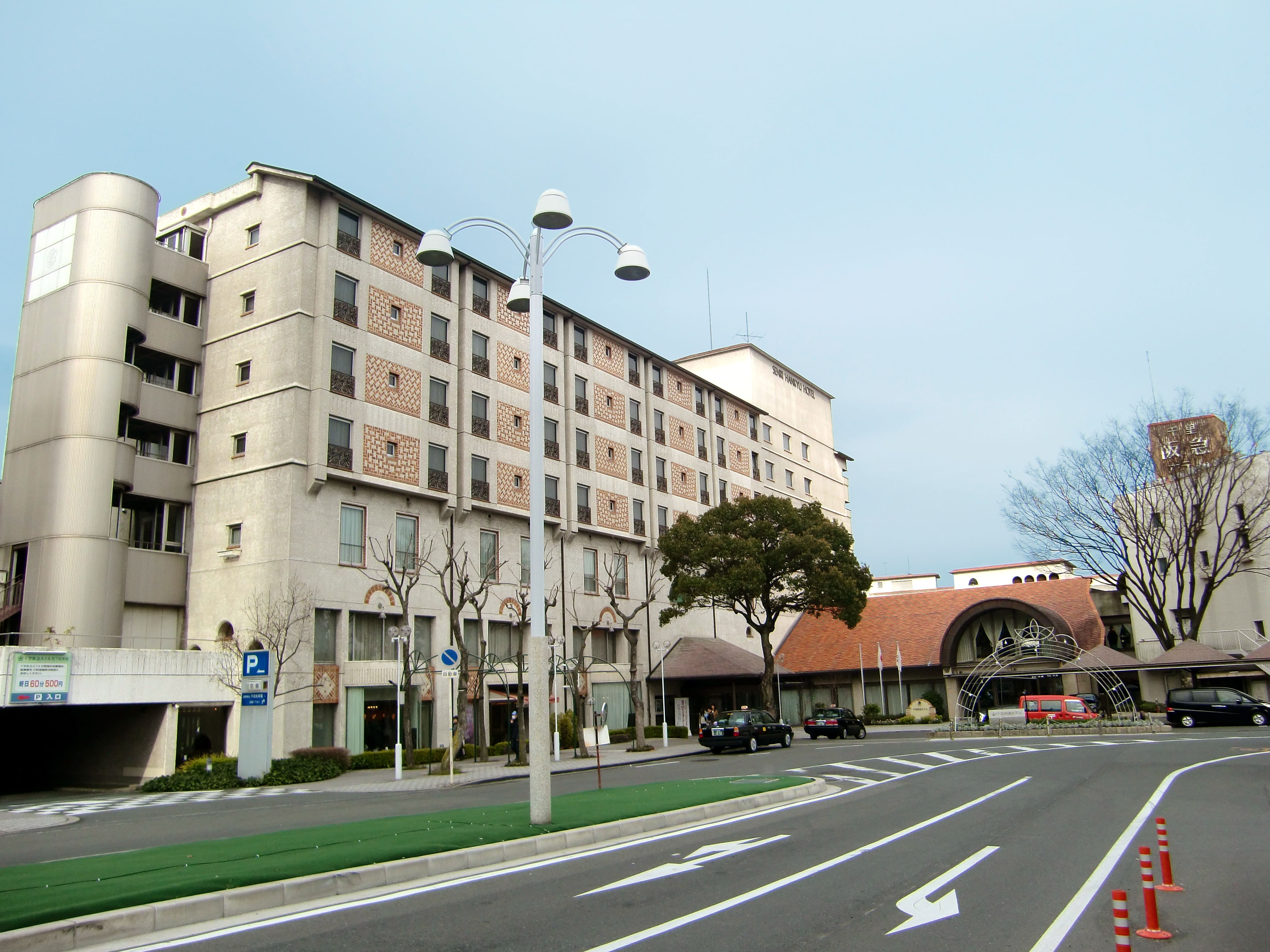 Senri Hankyu Hotel, 2-1-D-1 Senrihigashimachi Toyonaka-City Osaka Japan.